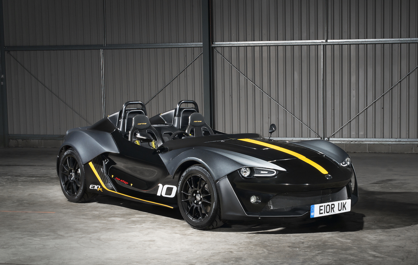 Zenos E10 R